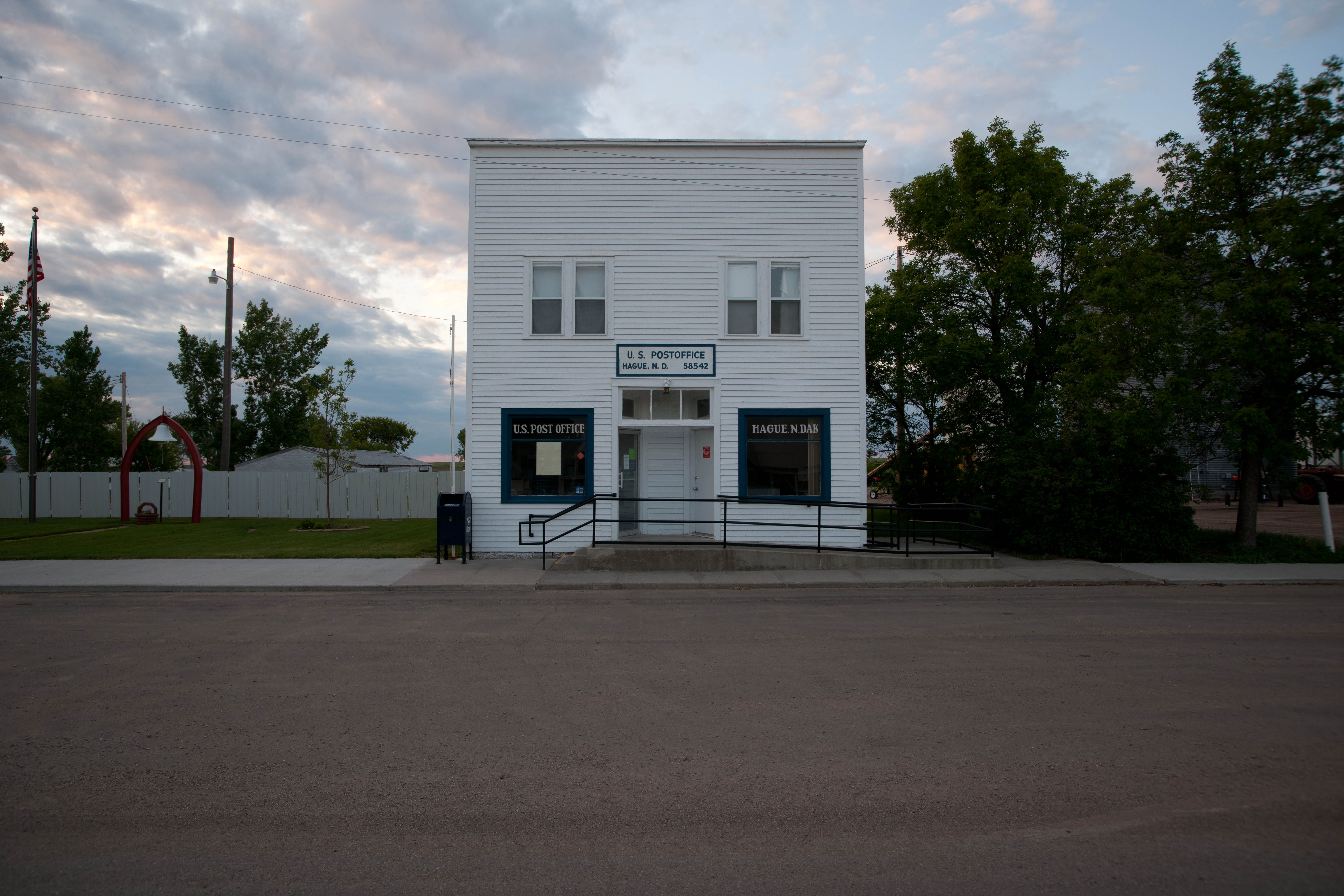 From